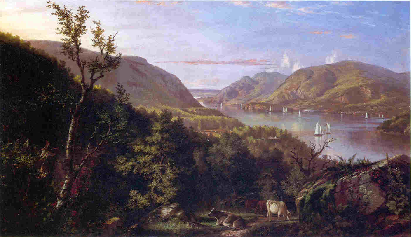 Landscape painting.